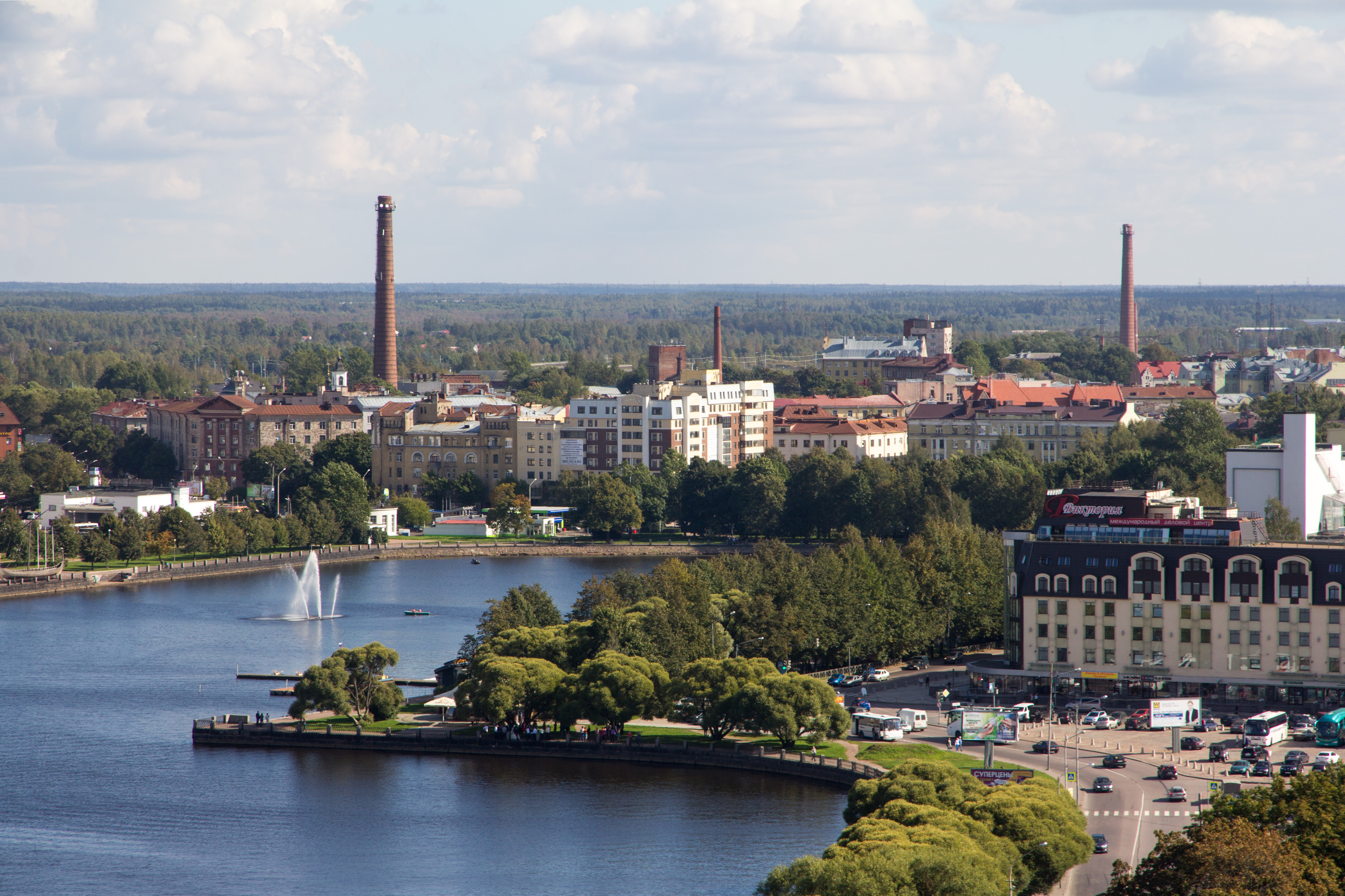 A view from the Olaf Tower